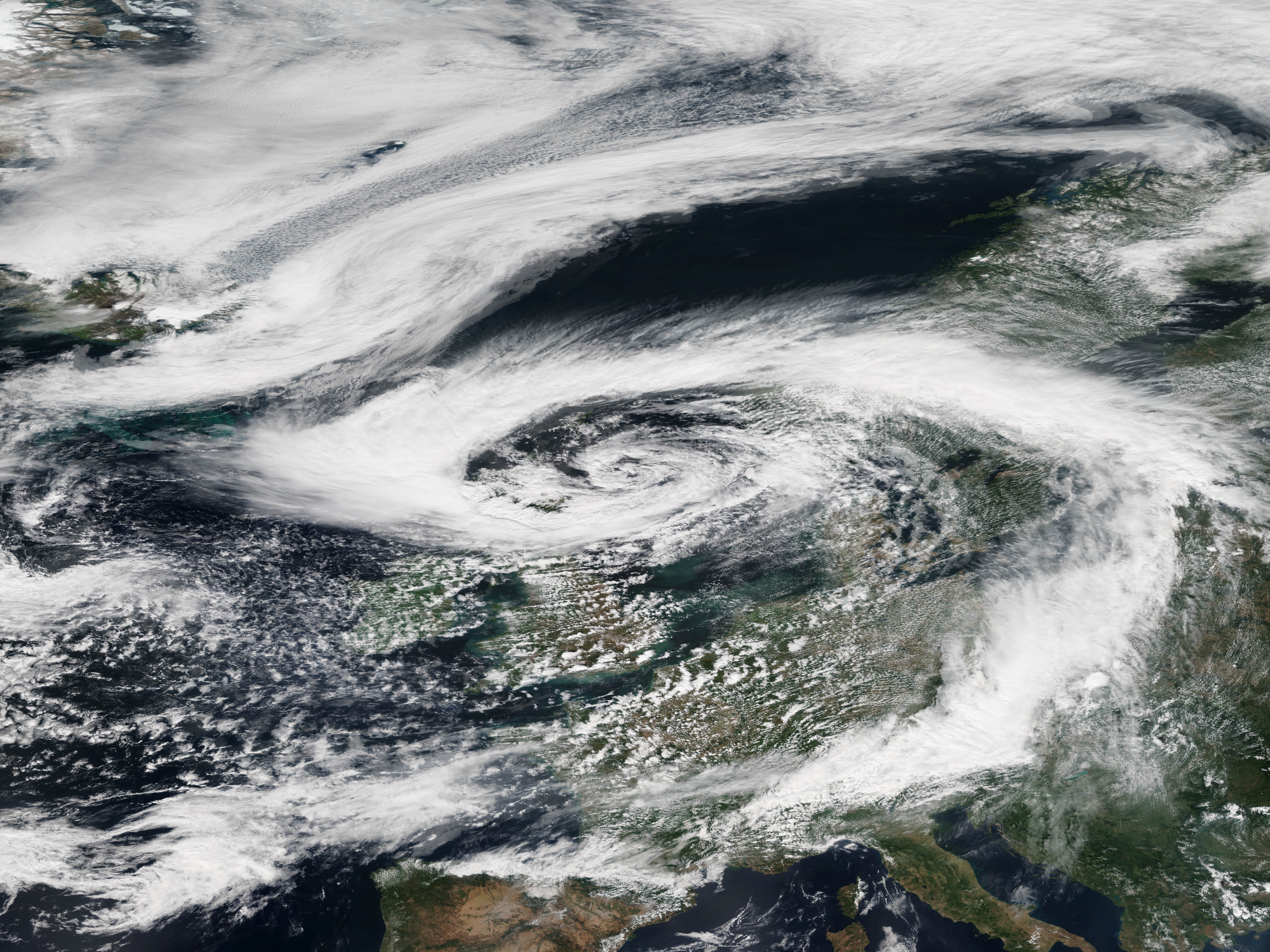 Post-tropical Cyclone Bertha over the North Sea on 11 August 2014.